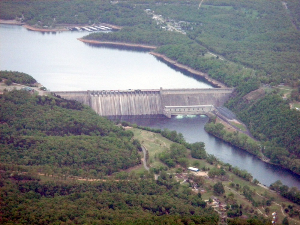 Aerial Photo of Bull Shoals Dam on White River Arkansas April 17 2010